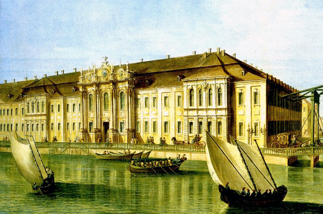 Unknown Italian (?) Artist, drawing by Mikhail Makhaev. View of the Winter Palace. Fragment